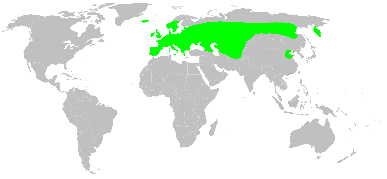 Known world distribution of Dolomedes fimbriatus, after data from British Arachnological Society, 2007.